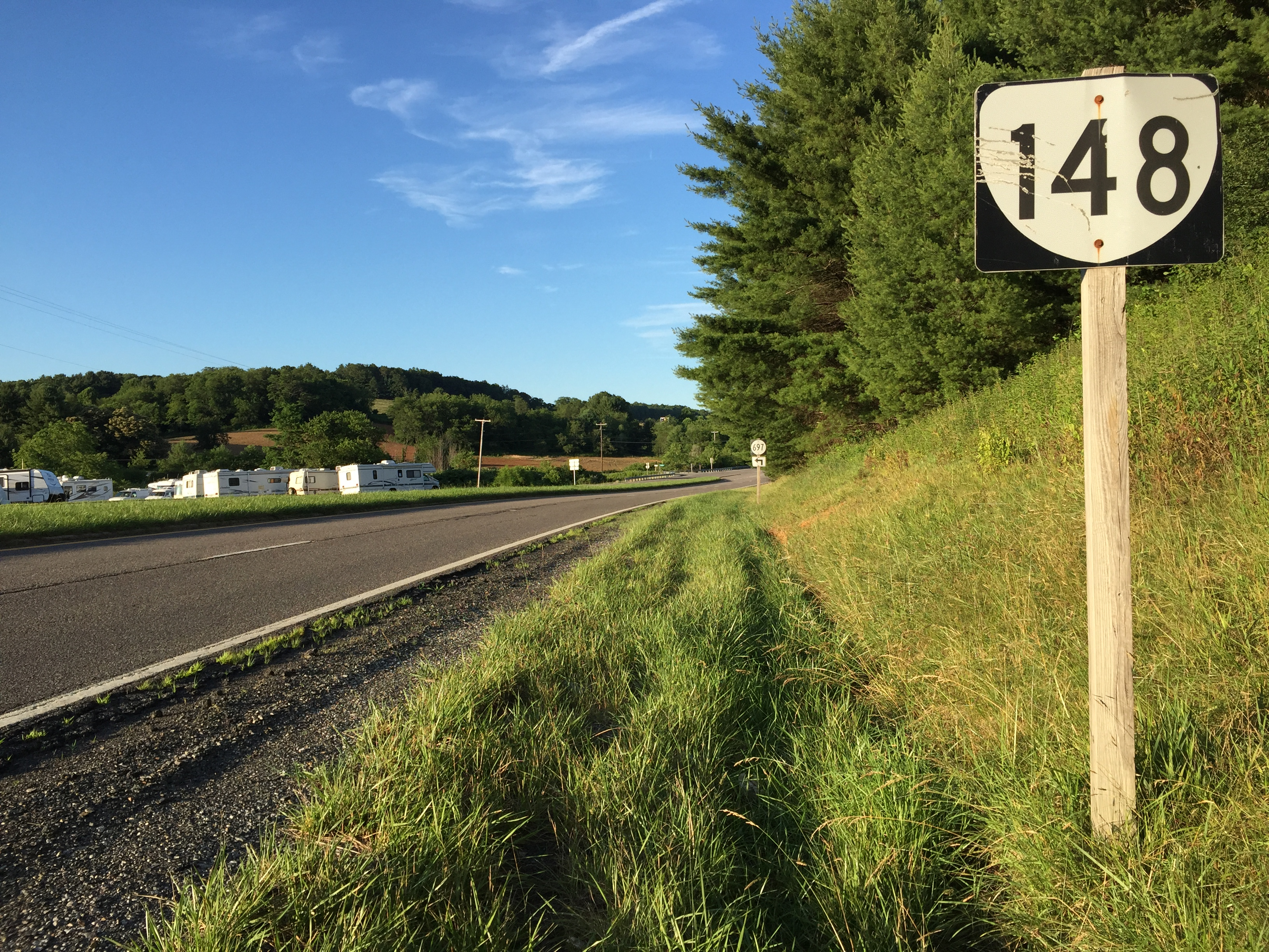 View east along Virginia State Route 148 (Chances Creek Road) just east of Interstate 77 in Fancy Gap, Carroll County, Virginia